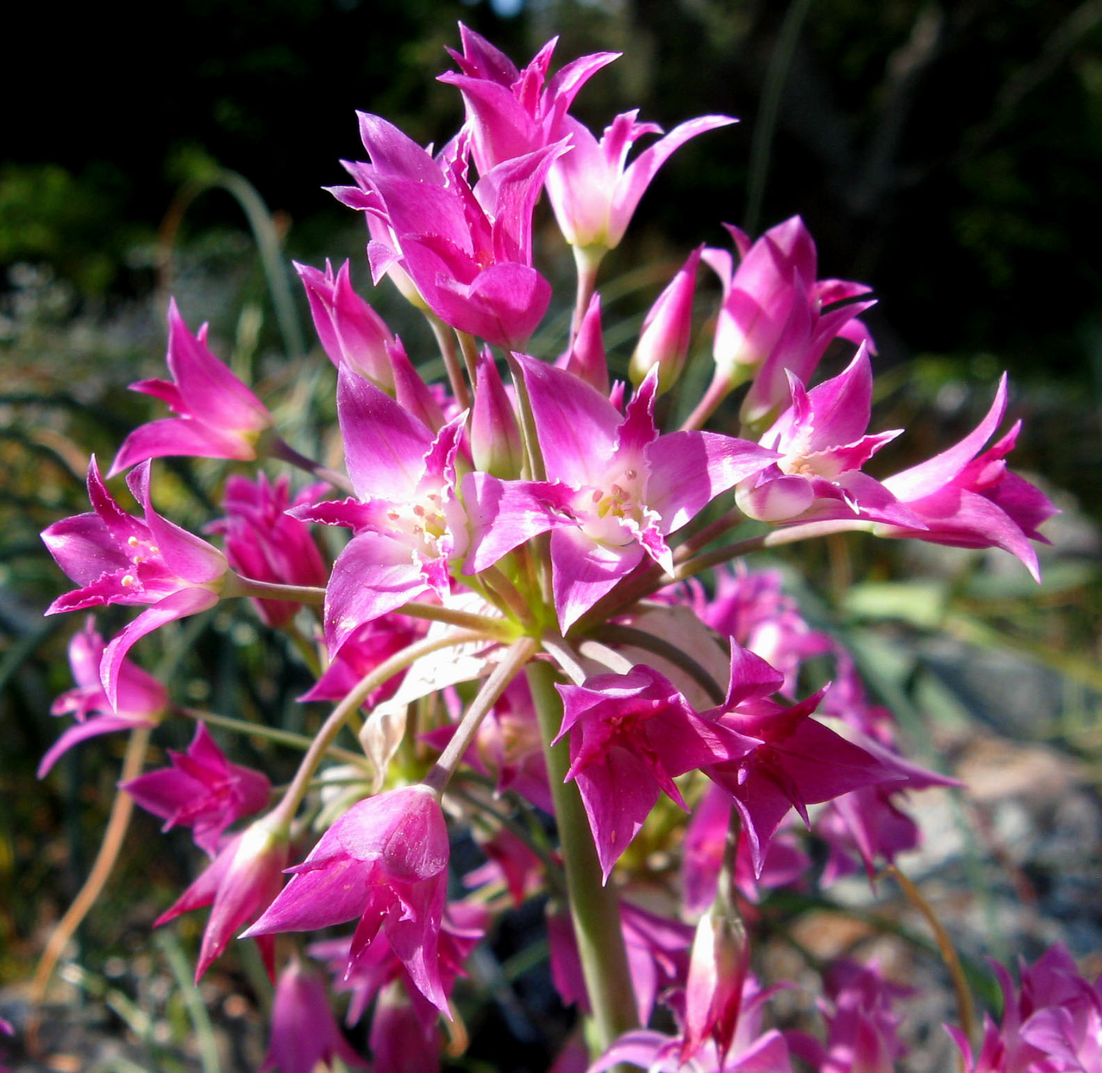 Blooms of Allium crispum — Crinkled onion. At the Regional Parks Botanic Garden, in the Berkeley Hills, California. Species endemic to California.